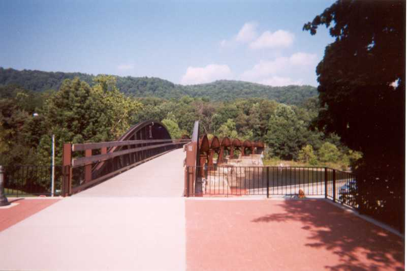 Youghiogheny River Trail crosses the river at Ohiopyle. Public domain image.